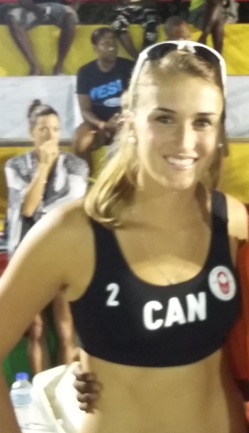 Taylor Pischke and Izaih at NORCECA 2015 in Tobago.